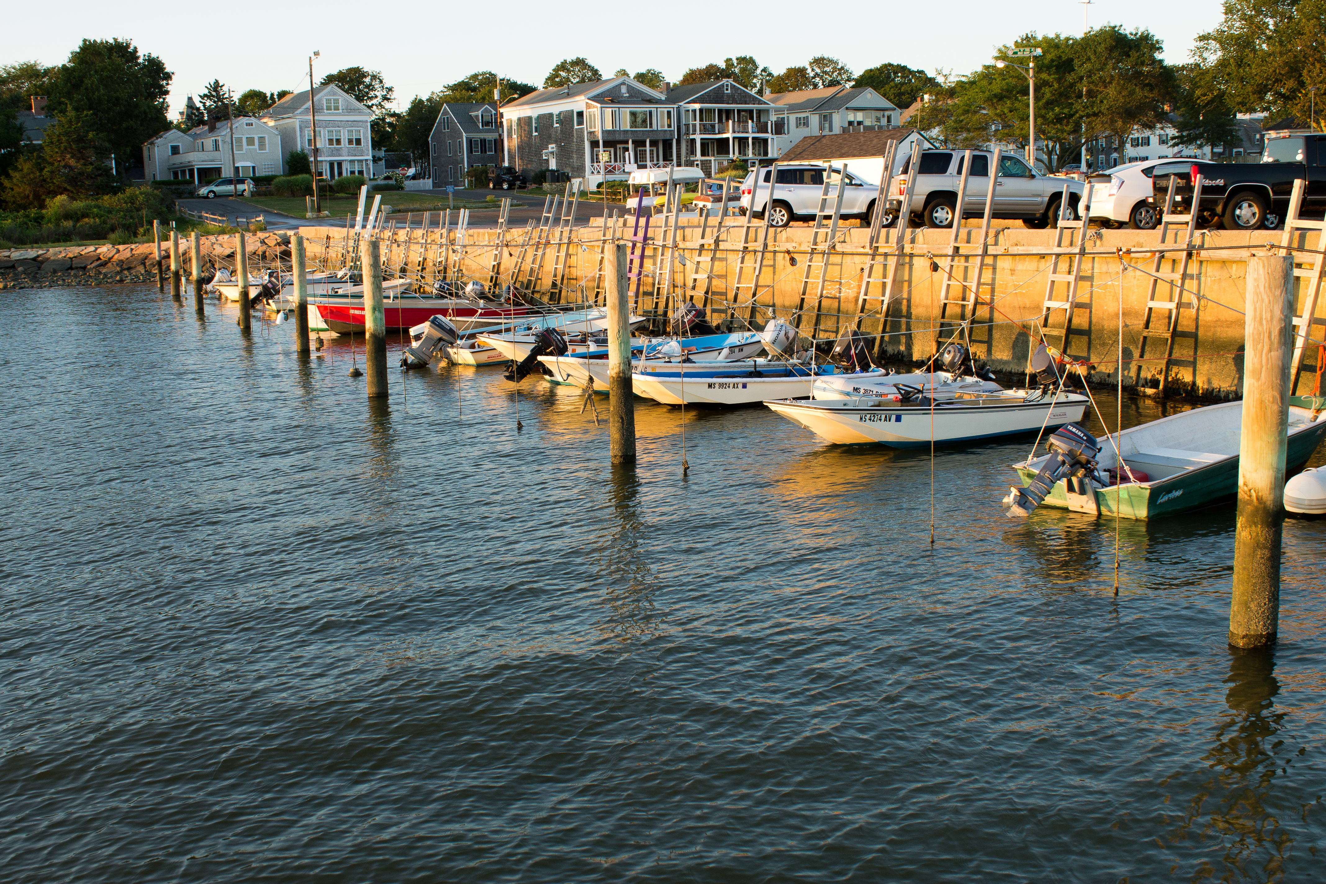 A view of Shipyard Park's westernmost pier.